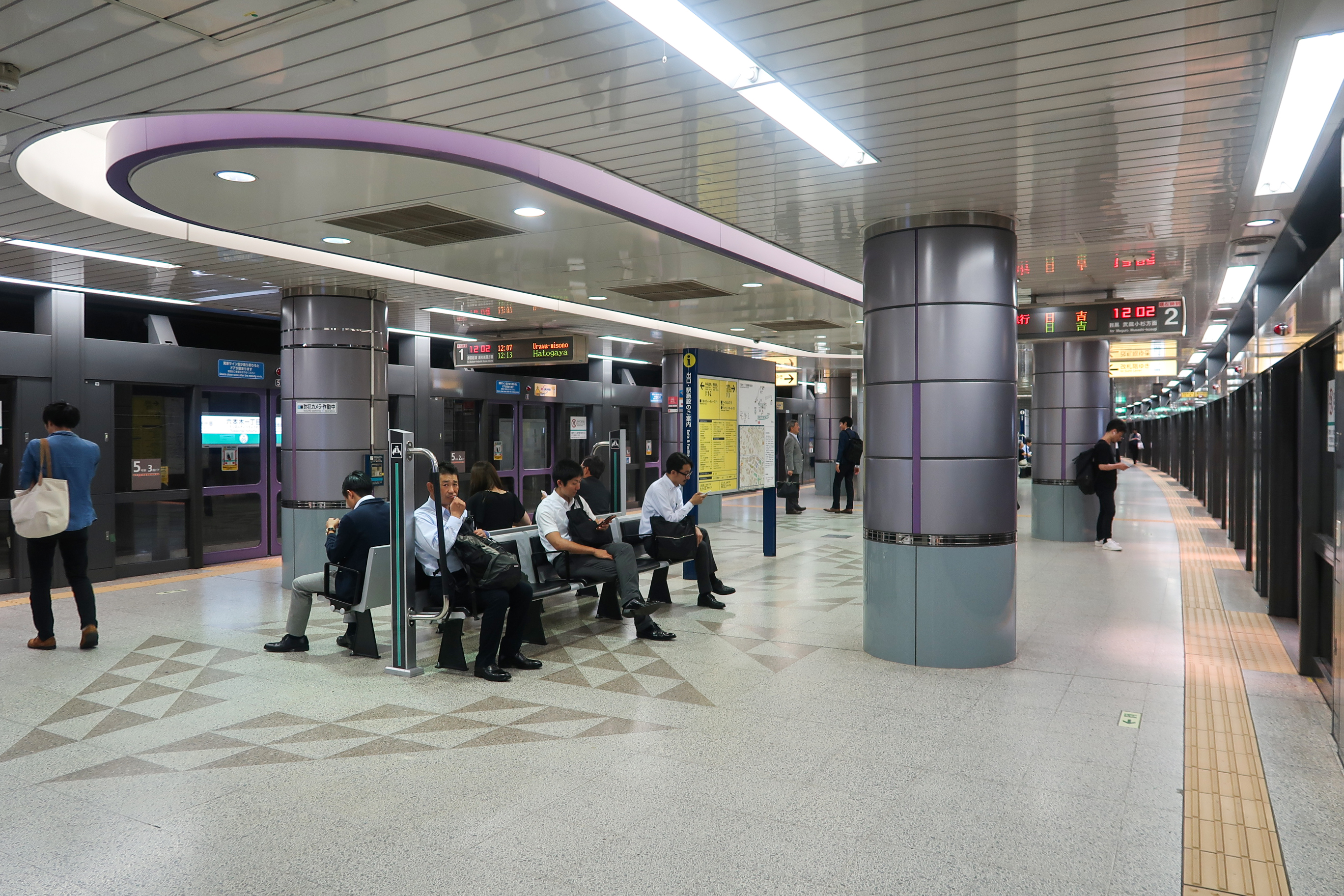 Roppongi-itchōme Station Platform